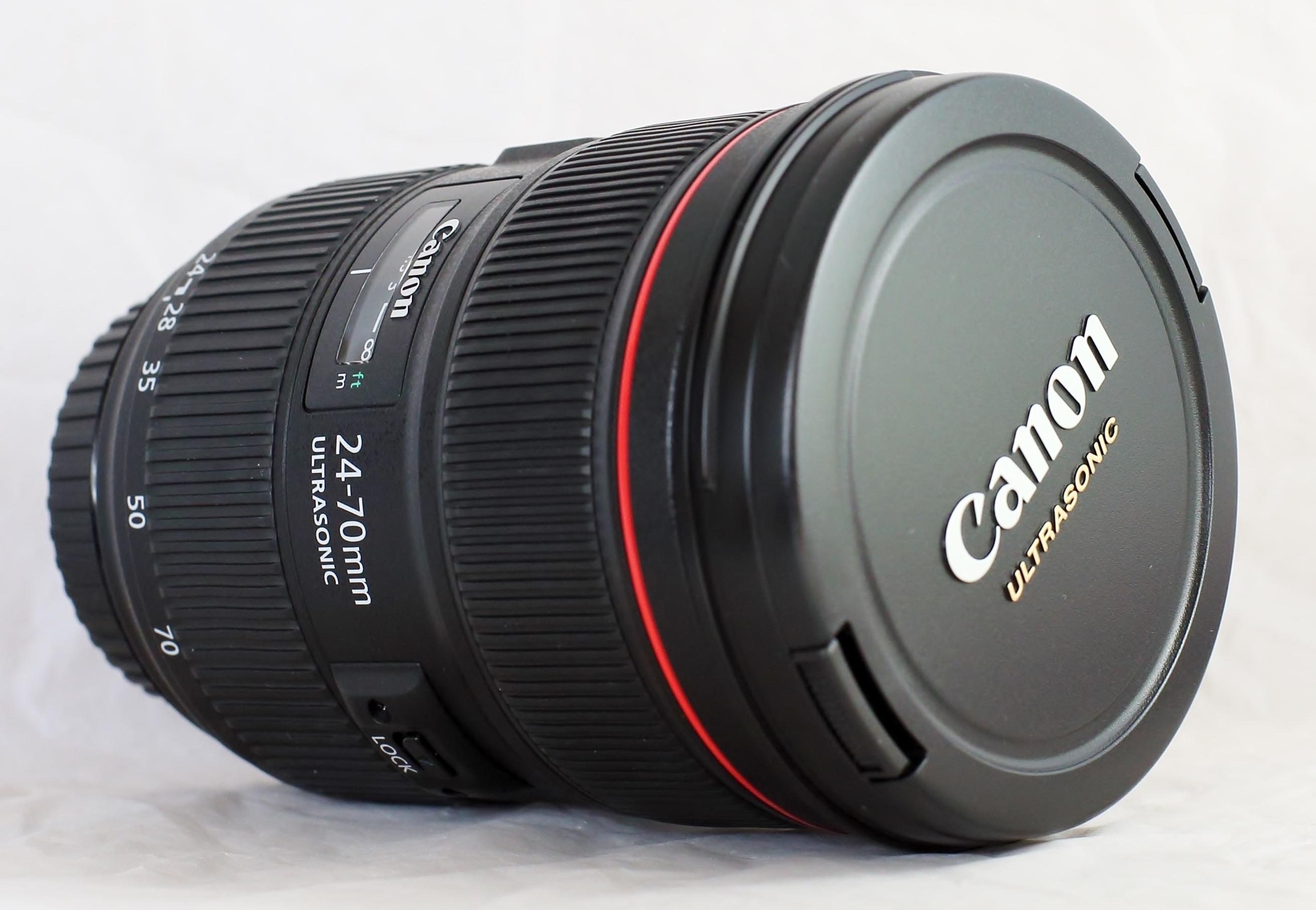 The Canon EF 24-70mm f2.8 L II USM.lens was launched in 2012 it is a professional standard zoom lens features a completely new optical design from its predecessor .